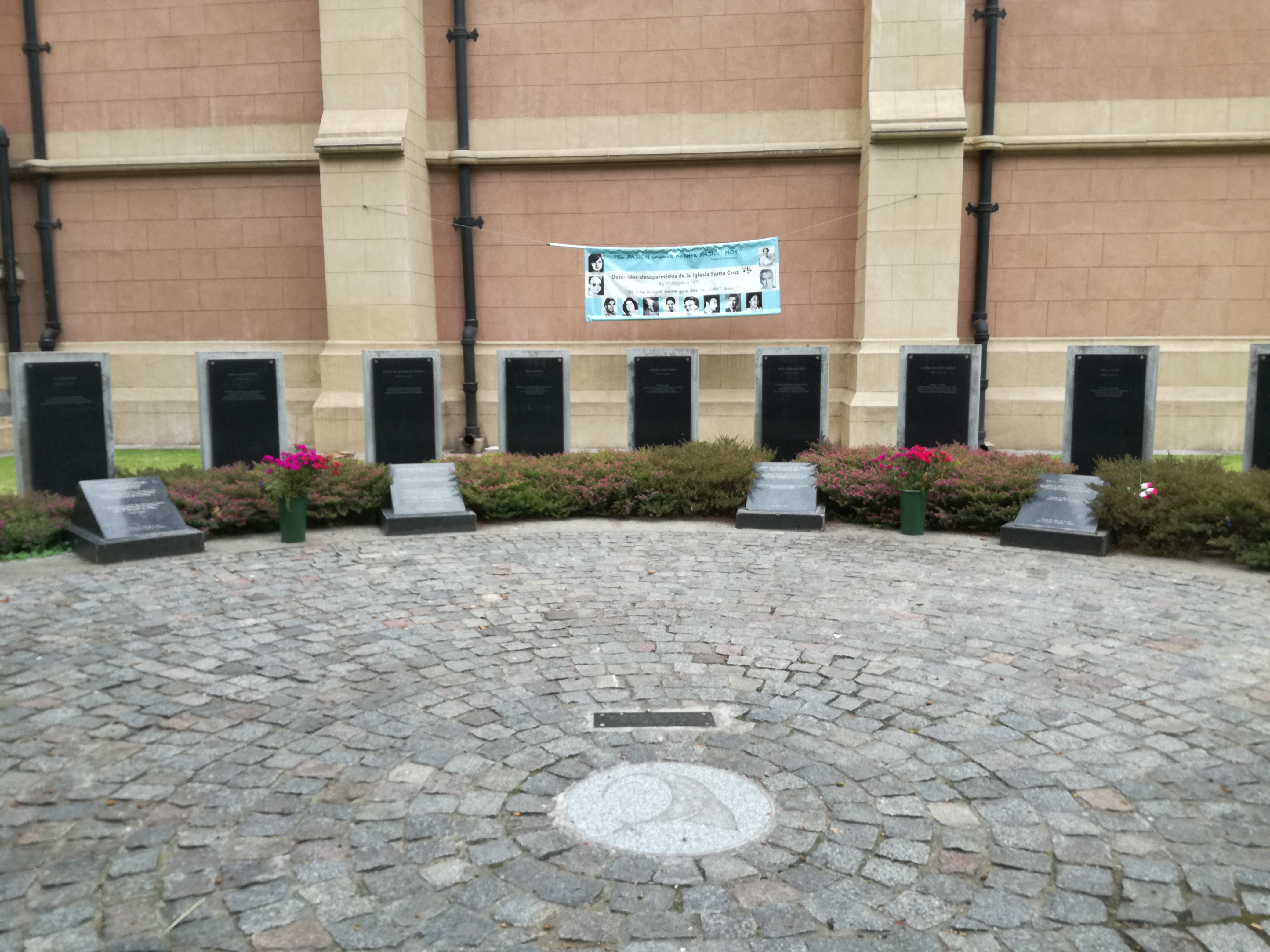 Church of Santa Cruz. Argentina. Buenos Aires. Memory place. Graves of Mothers of Plaza de Mayo Azucena Villaflor, Esther Ballestrino and María Ponce, as well as sister Léonie Duquet.